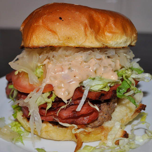 Today's special at Jeff's Gourmet on Pico, the Sallammin #Burger. With #grilled #salami, 1000 island, & #sauerkraut. Good stuff! The #beef patty is inexplicably compressed, but otherwise really tasty! #dinner #picoftheday #foodporn #hamburger